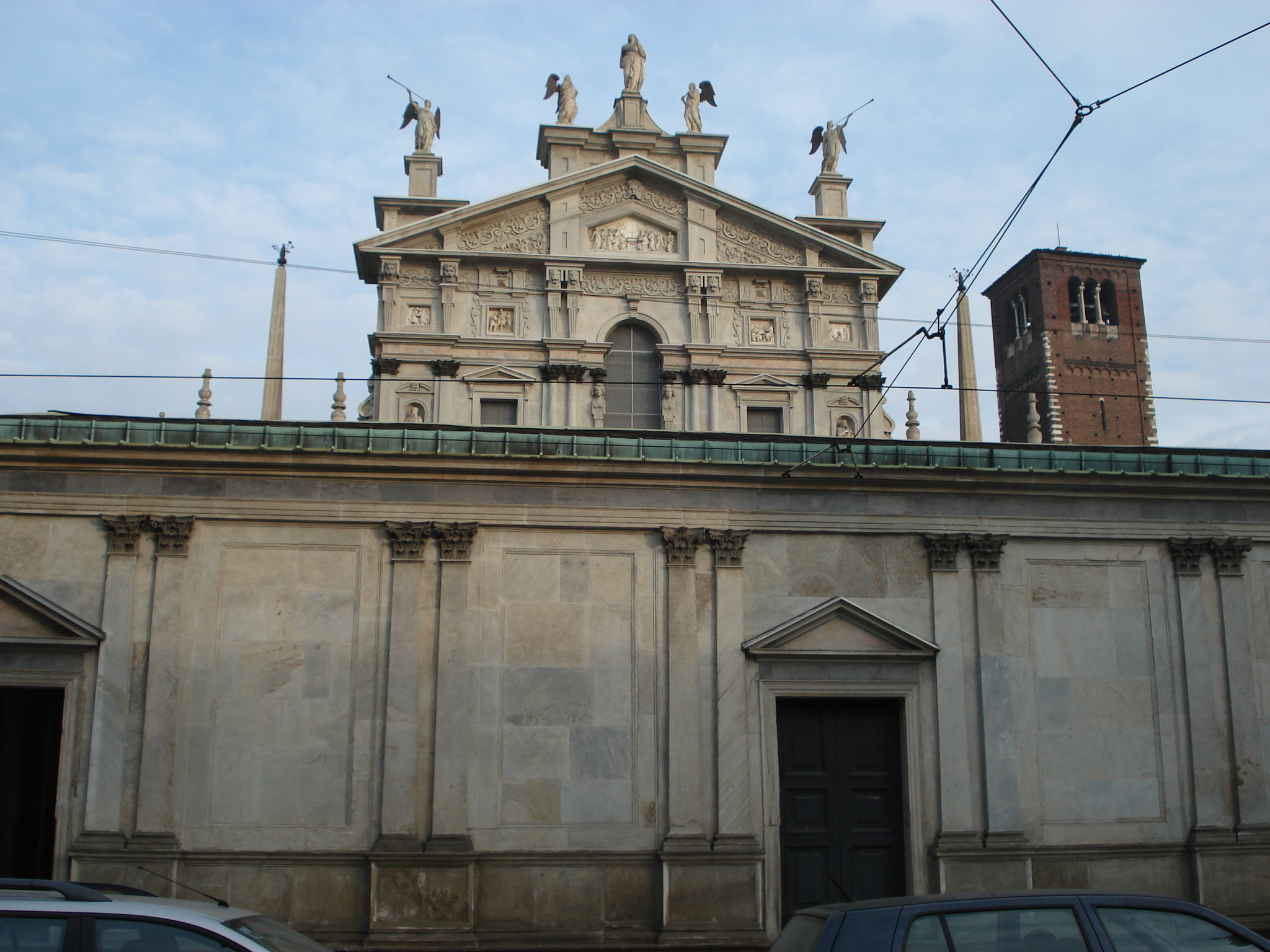 Santa Maria dei Miracoli church in Milan. Picture by Giovanni Dall'Orto, February 10 2007. In 1745. In 2007. In 2007.